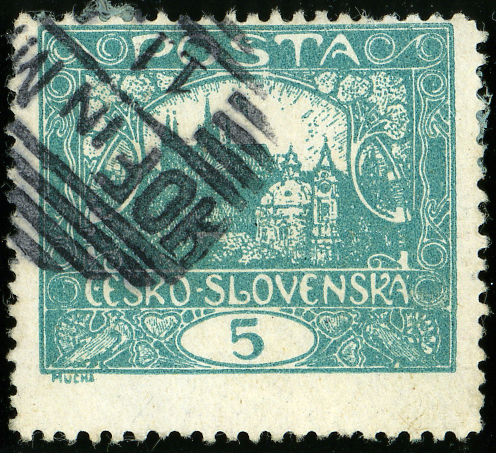 Stamp of Czechoslovakia, 5 heller, issue 1919, cancelled HOF in MÄHREN (Moravia, Bruntal District)